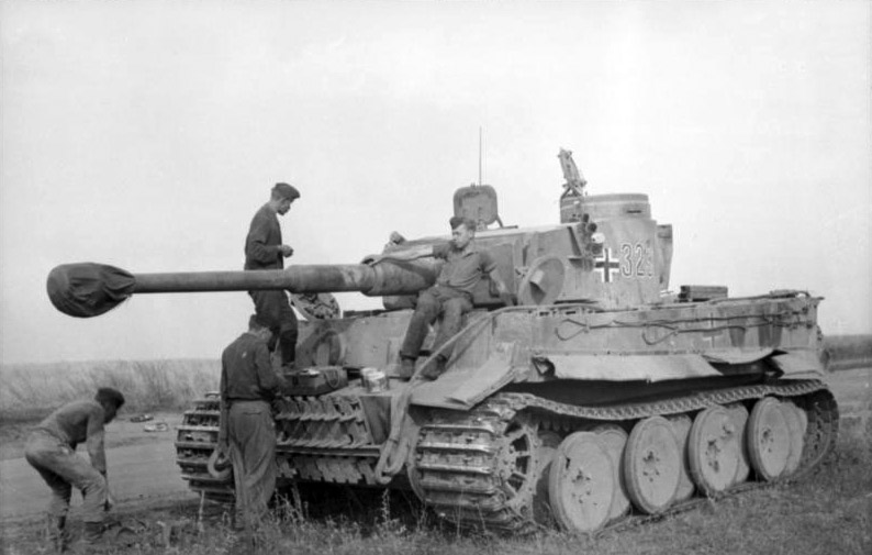 Information added by Wikimedia users.1943, 3rd Company, sPzAbt.503, Russia